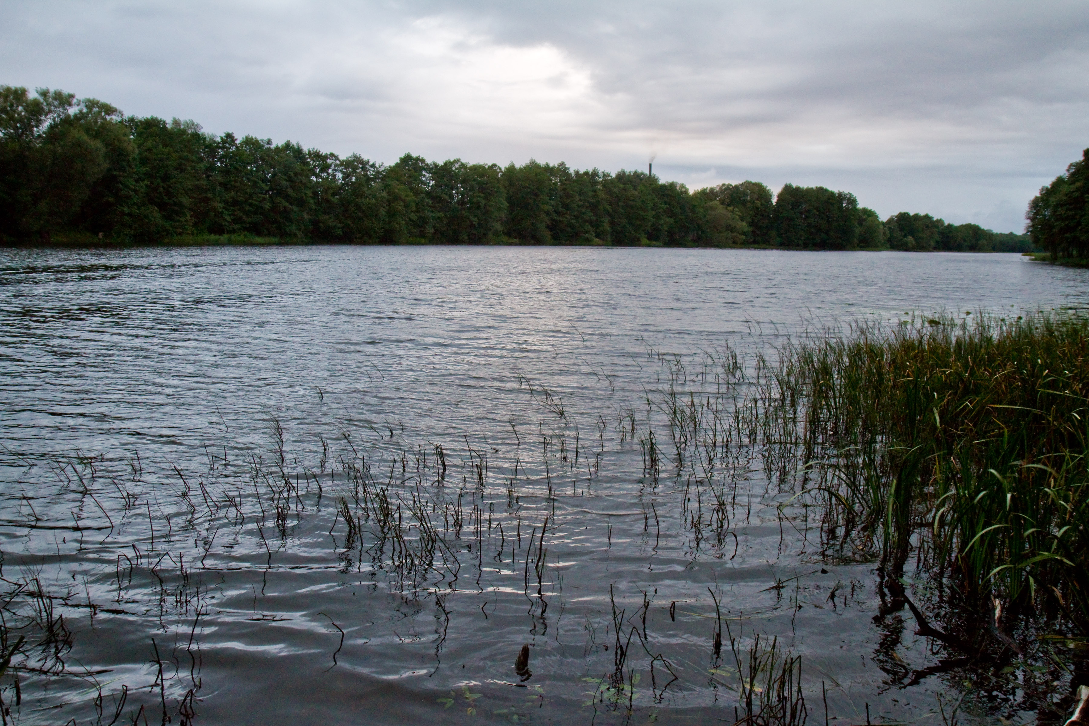 Miorskaje Lake. Miory, Miory district, Viciebsk province, Belarus.